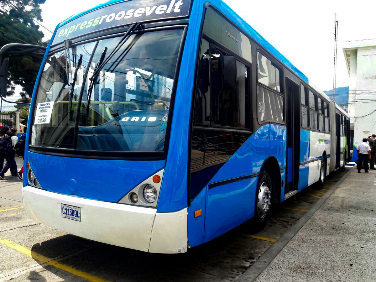 Rutas Express, Guatemala City-Mixco